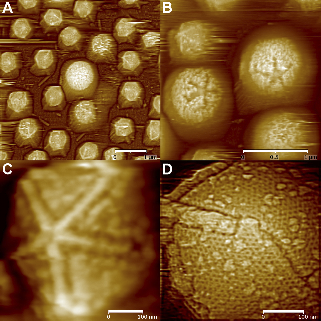 AFM-images of Starfish-shaped Features on Defibered Mimiviruses A) Defibered Mimivirus at low magnification showing that the majority of the particles have starfish-shaped features B) Partially digested Mimivirus at median magnification C) A high-magnification image of a starfish-shaped feature on a defibered virus D) A defibered particle treated with proteinase K showing the arm of a starfish-shaped feature The scale bars in (A) and (B) represent 1 μm, and those in (C) and (D) are 100 nm (1,000 Å)